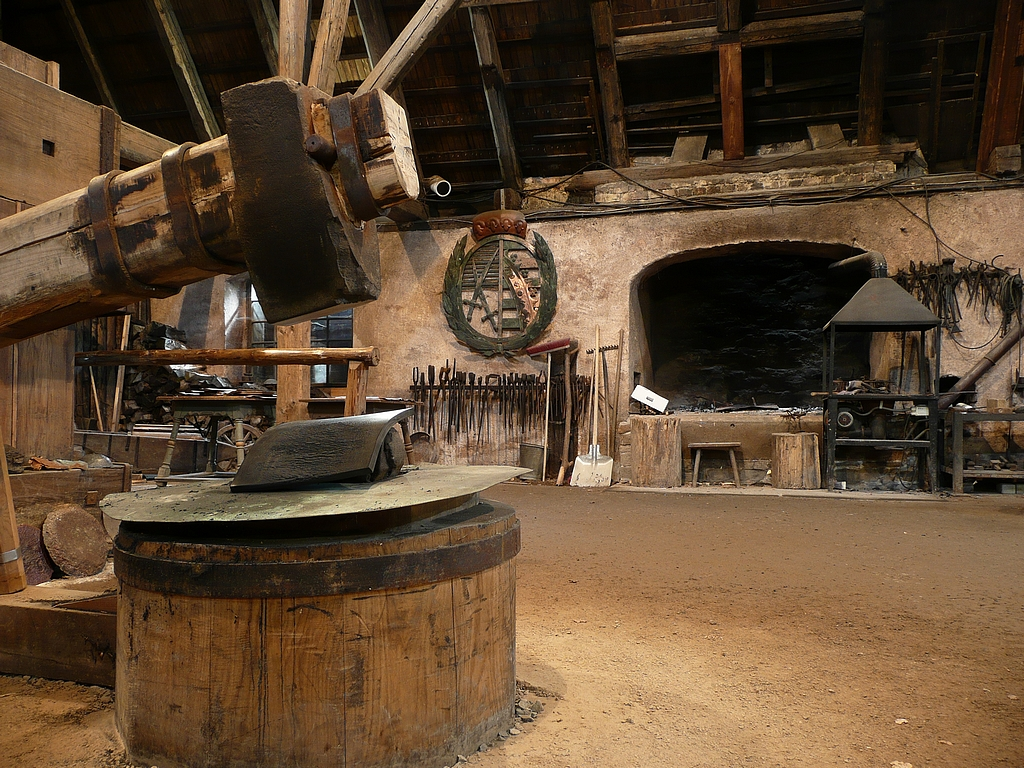 Olbernhau-Grünthal, historic copperworks, trip hammer and forge oven.